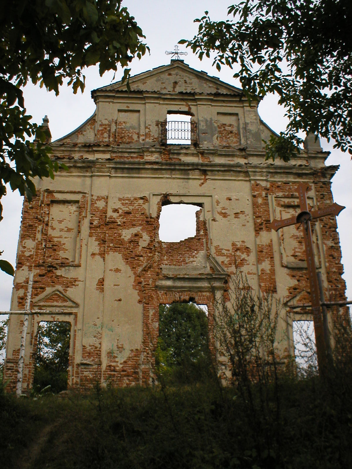 Destroyed Garbów church.